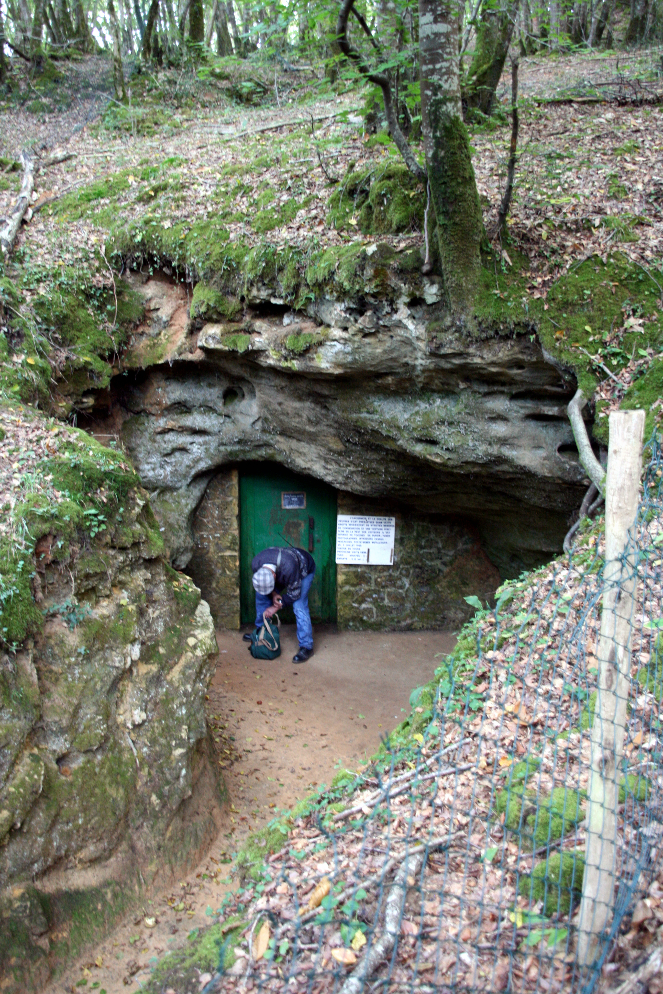 Entrance of the Bernifal cave, Meyrals, Dordogne, France. This site was occupied by Homo Sapiens, between near 35,000 and 15,000 BP.